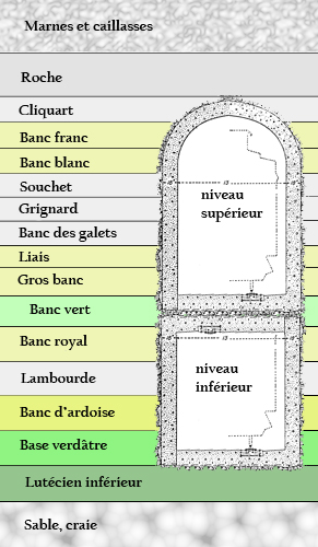 Simple geological view of a limestone quarry in Paris, France.